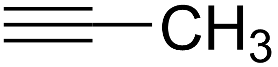 chemical structure of propyne